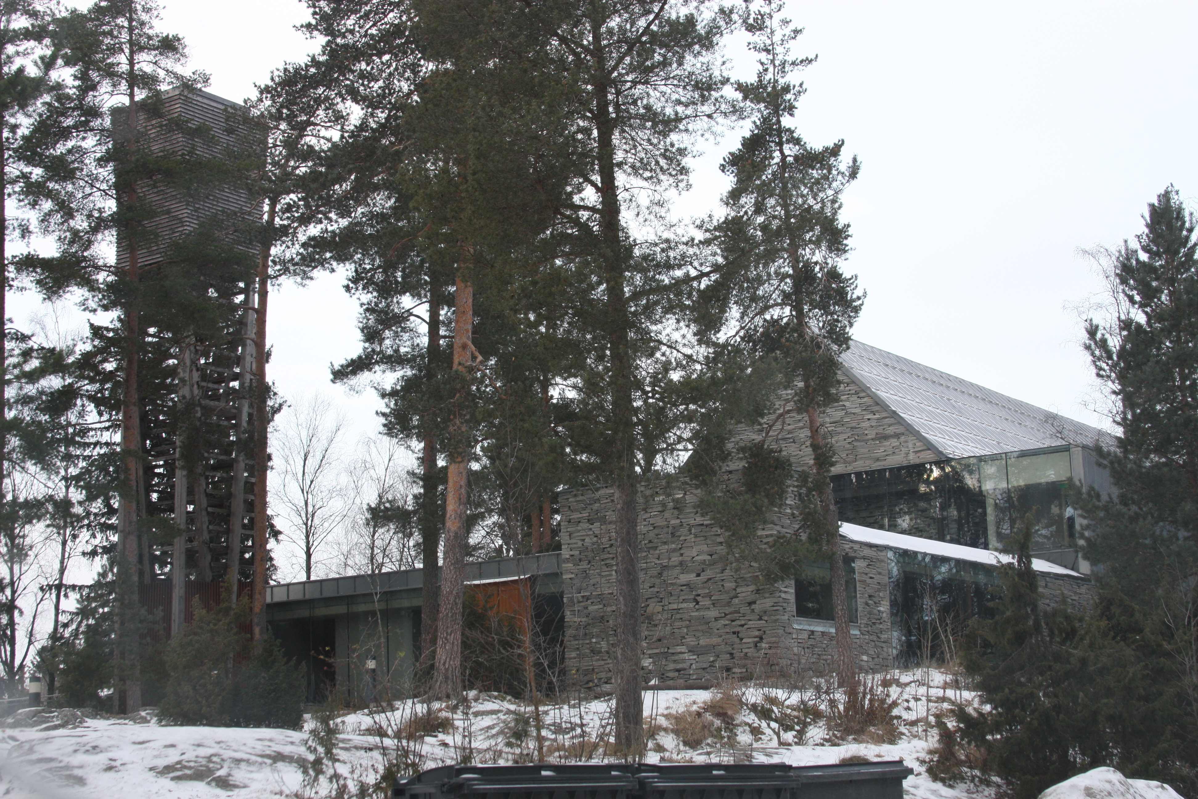 Mortensrud kirke (Mortensrud Church), Oslo, Norway.